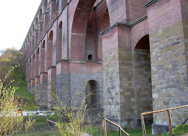 This image shows a close-up photo of the Göltzschtal bridge.